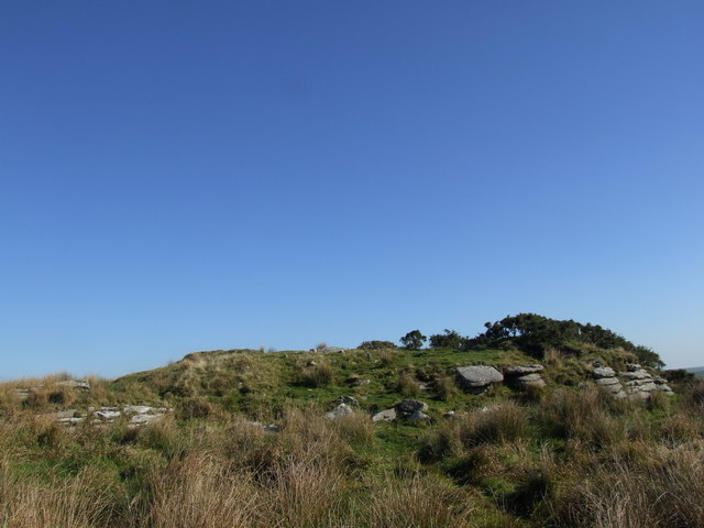 Tolborough Tor A burial cairn sits atop of Tolborough Tor, partly manmade but using the natural rock feature on the righthand side.